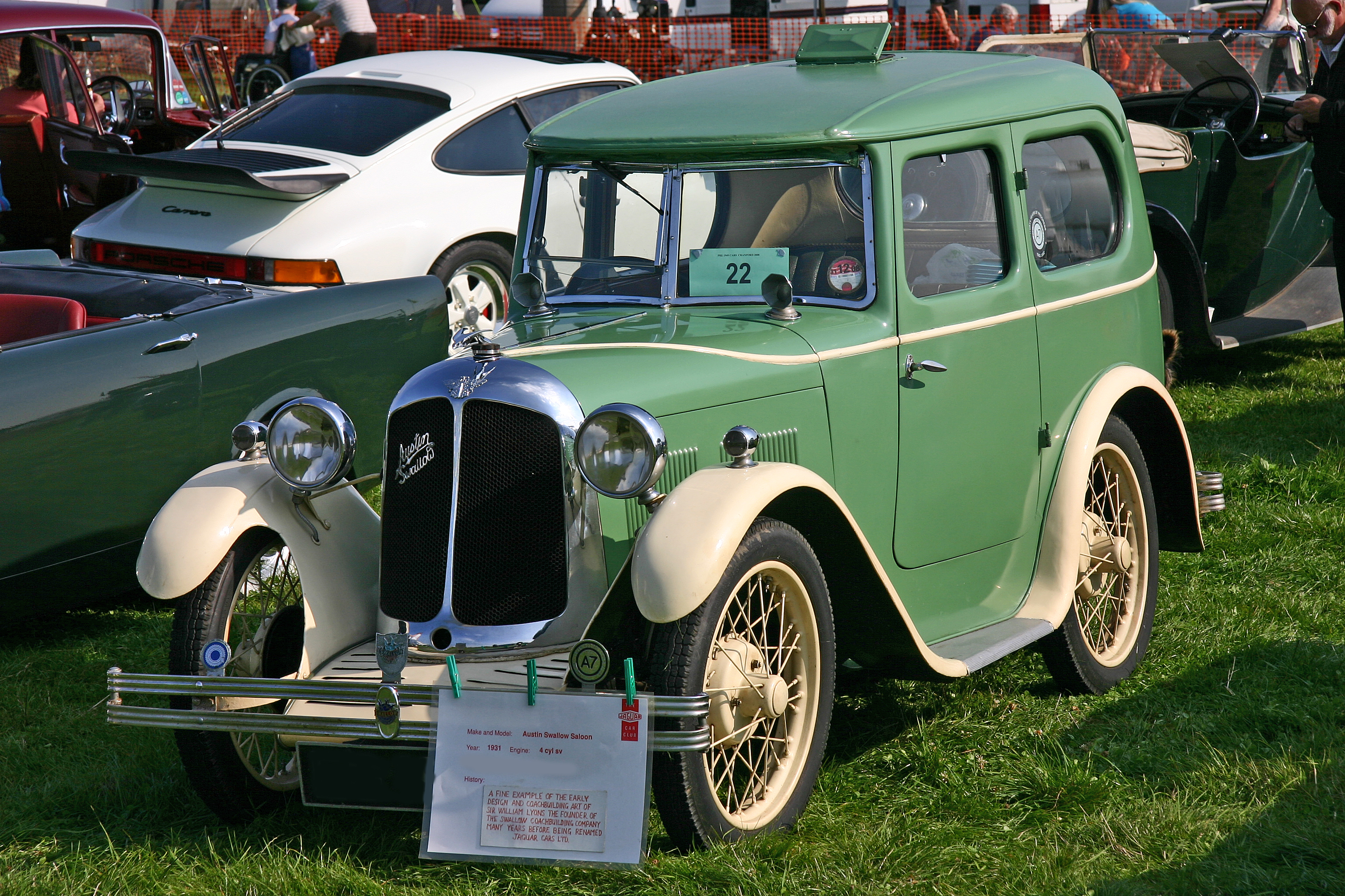 Austin Seven Swallow 1931. In 1927 the Swallow Sidecar Company decided to diversify into coachbuilding and commissioned Cyril Holland to design this body for the Austin Seven Chassis, thus producing the Austin Seven Swallow.